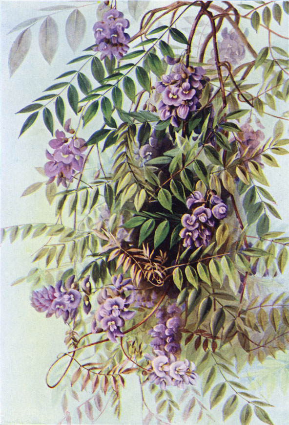 American Wisteria, Wisteria frutescens offset color reproduction or engraving/etching